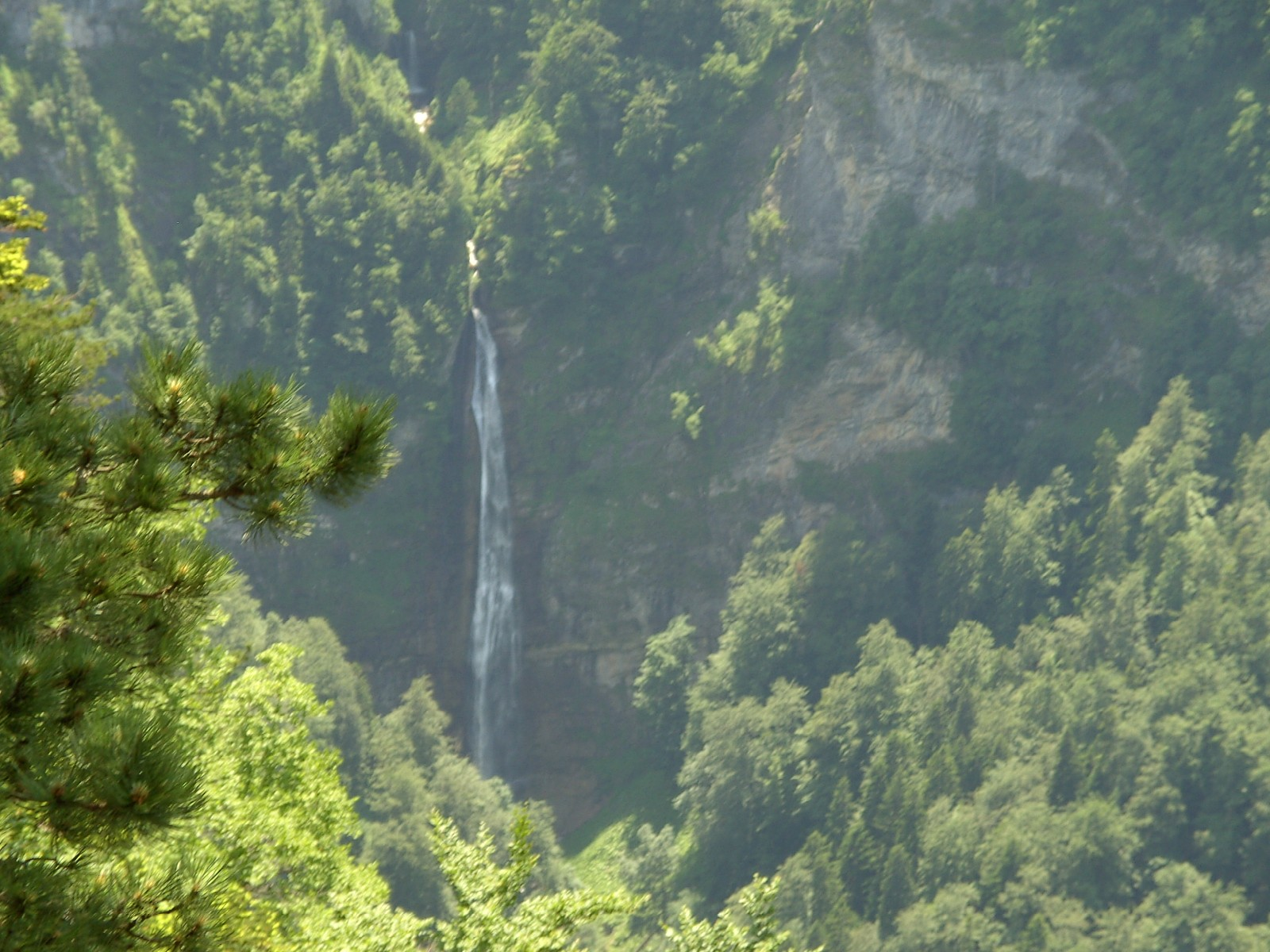 National park Sutjeska, Bosnia and Herzegovina Digital StillCamera